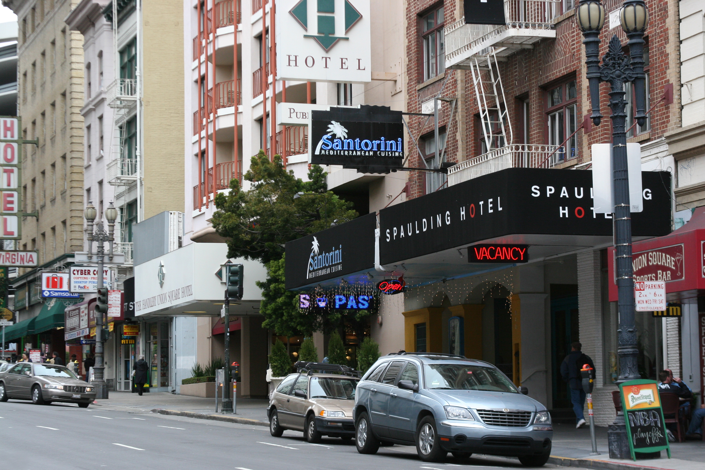 O'Farrell Street in the Tenderloin section of downtown San Francisco